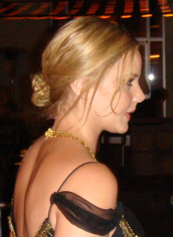 Candid profile photo of Abbie Cornish.20071001-036